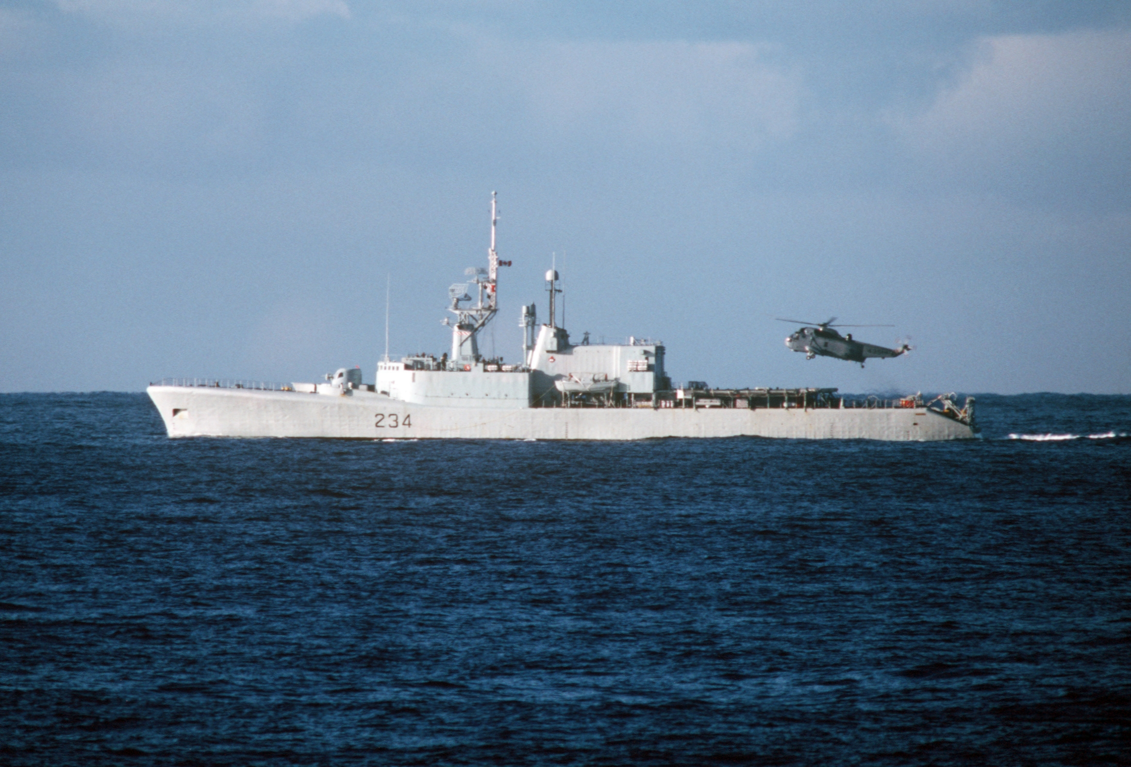 The Royal Canadian Navy frigate HMCS Assiniboine (DDH 234) underway in the Norwegian Sea. The ship's Sikorsky CH-124 Sea King helicopter hovers over the water off the ship's port quarter.